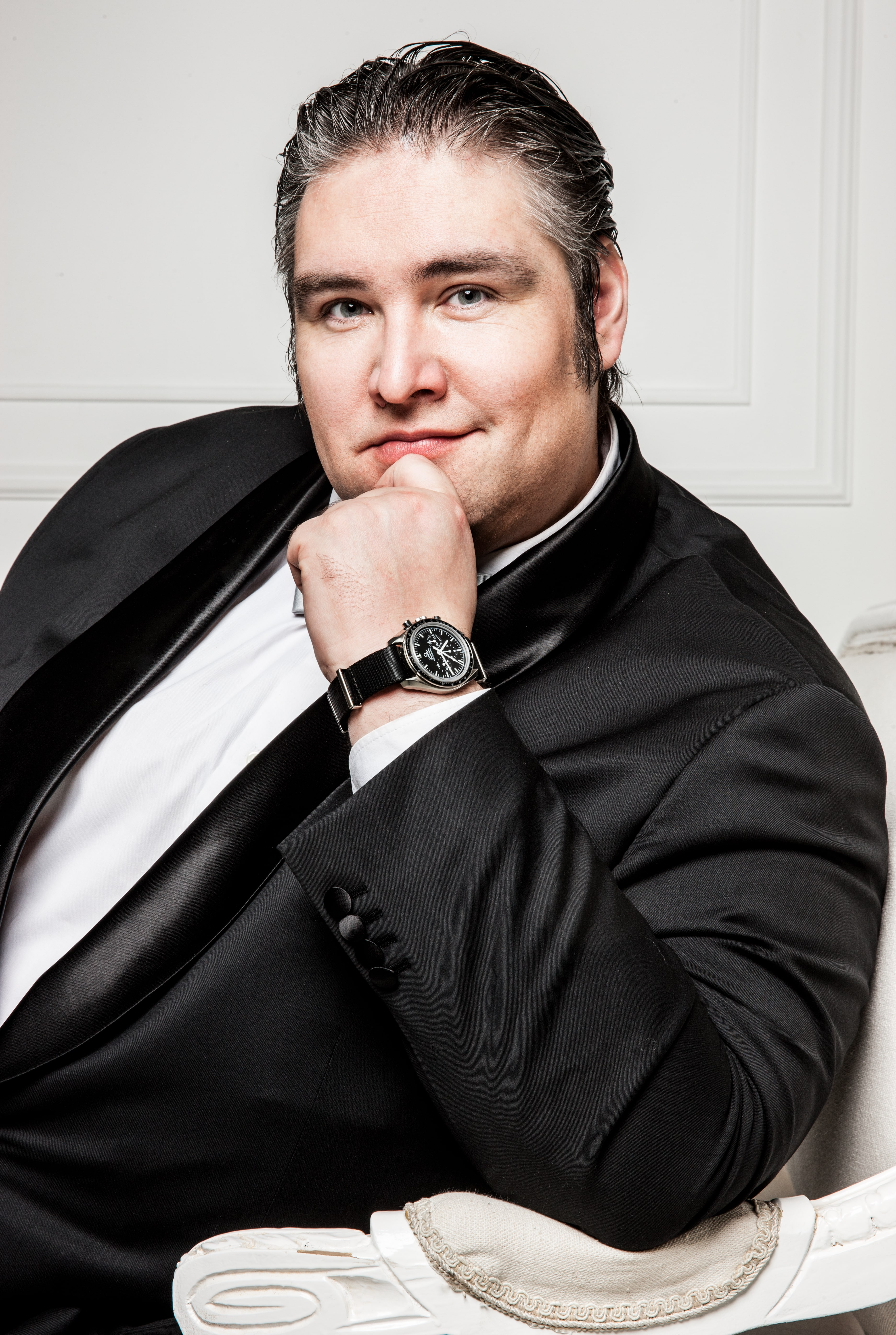 Zdeněk Plech, bass opera vocalist from the Czech Republic